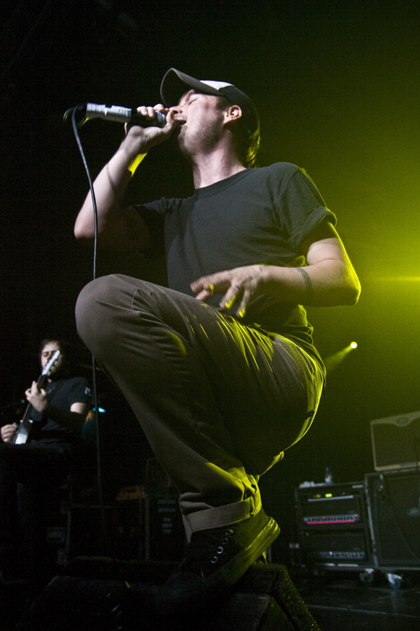 Matthew Davies-Kreye of Funeral for a Friend